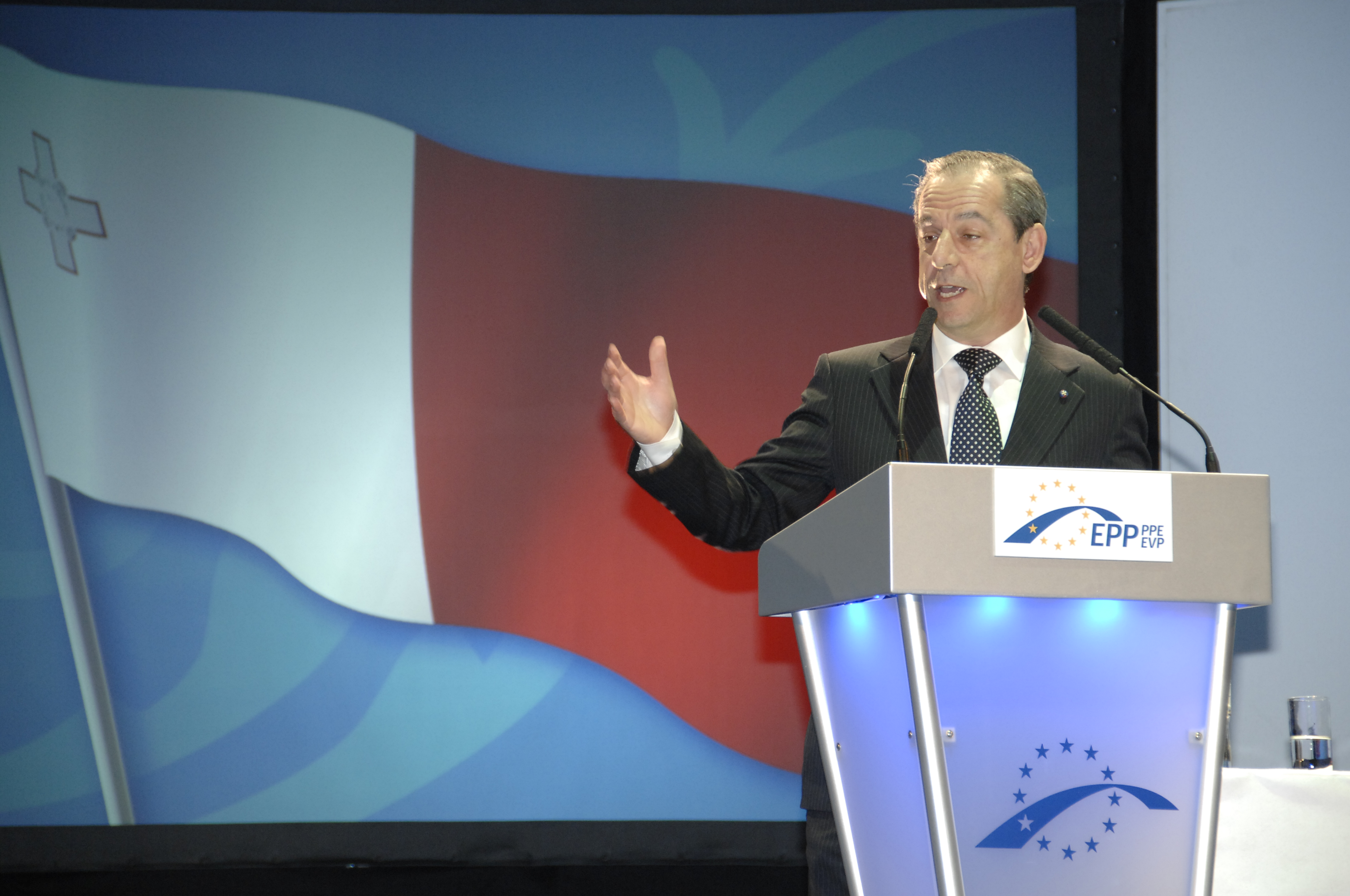 EPP Congress Warsaw